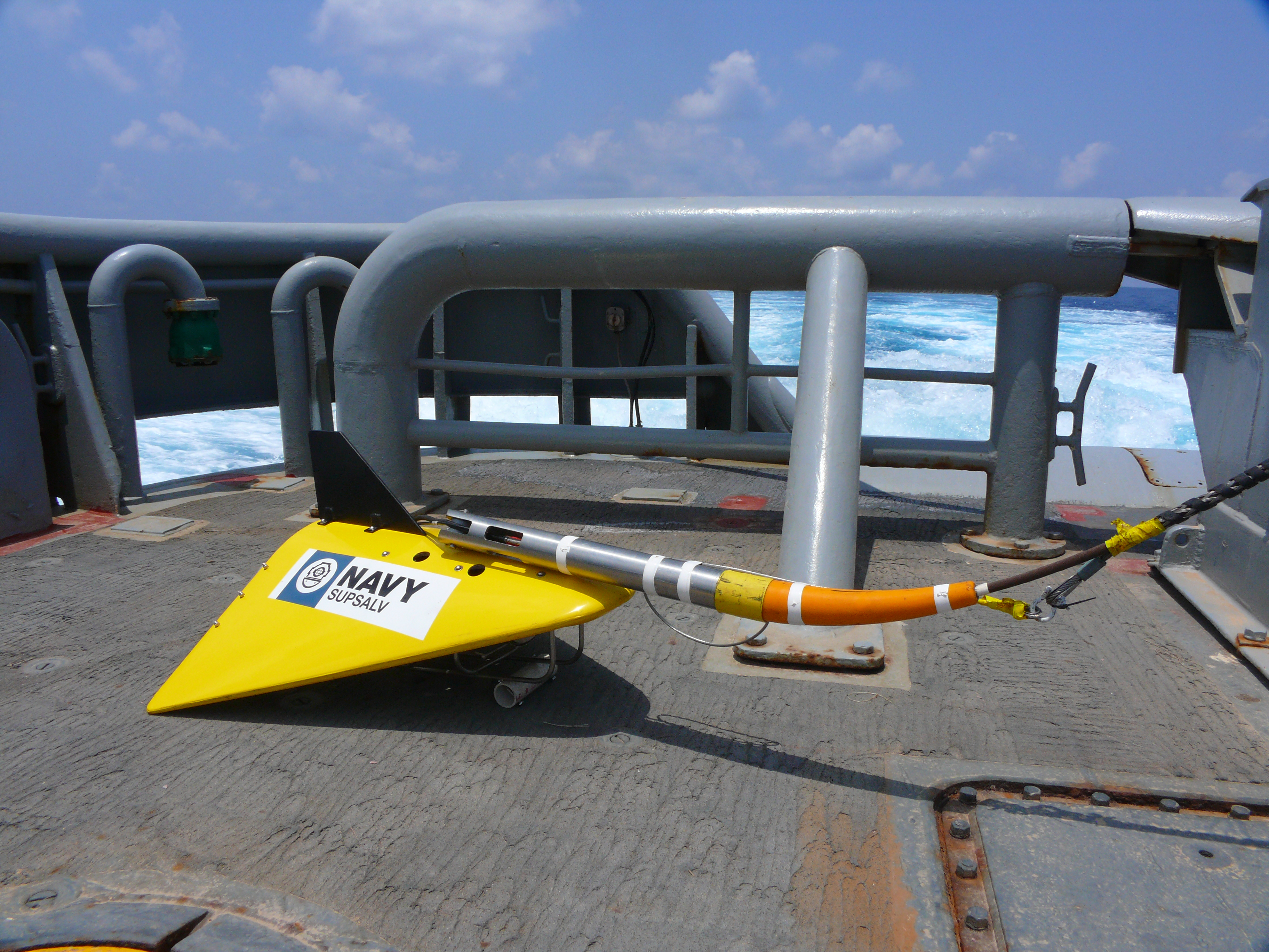 An undated file photo of a U.S. Navy Towed Pinger Locator 25 system released by the Navy March 24, 2014, in Washington, D.C. The system, which was deployed to assist in search and recovery efforts for Malaysia Airlines Flight 370, was designed to locate emergency relocation pingers on downed Navy and commercial aircraft down to a maximum depth of 20,000 feet anywhere in the world. U.S. Navy ships and aircraft were dispatched to assist a multinational search for Malaysia Airlines Flight 370, which disappeared March 8, 2014, over the Gulf of Thailand with 239 people aboard. Date Shot: 3/24/2014 Date Posted: 3/25/2014 VIRIN: 140324-N-ZZ999-002 /end original caption